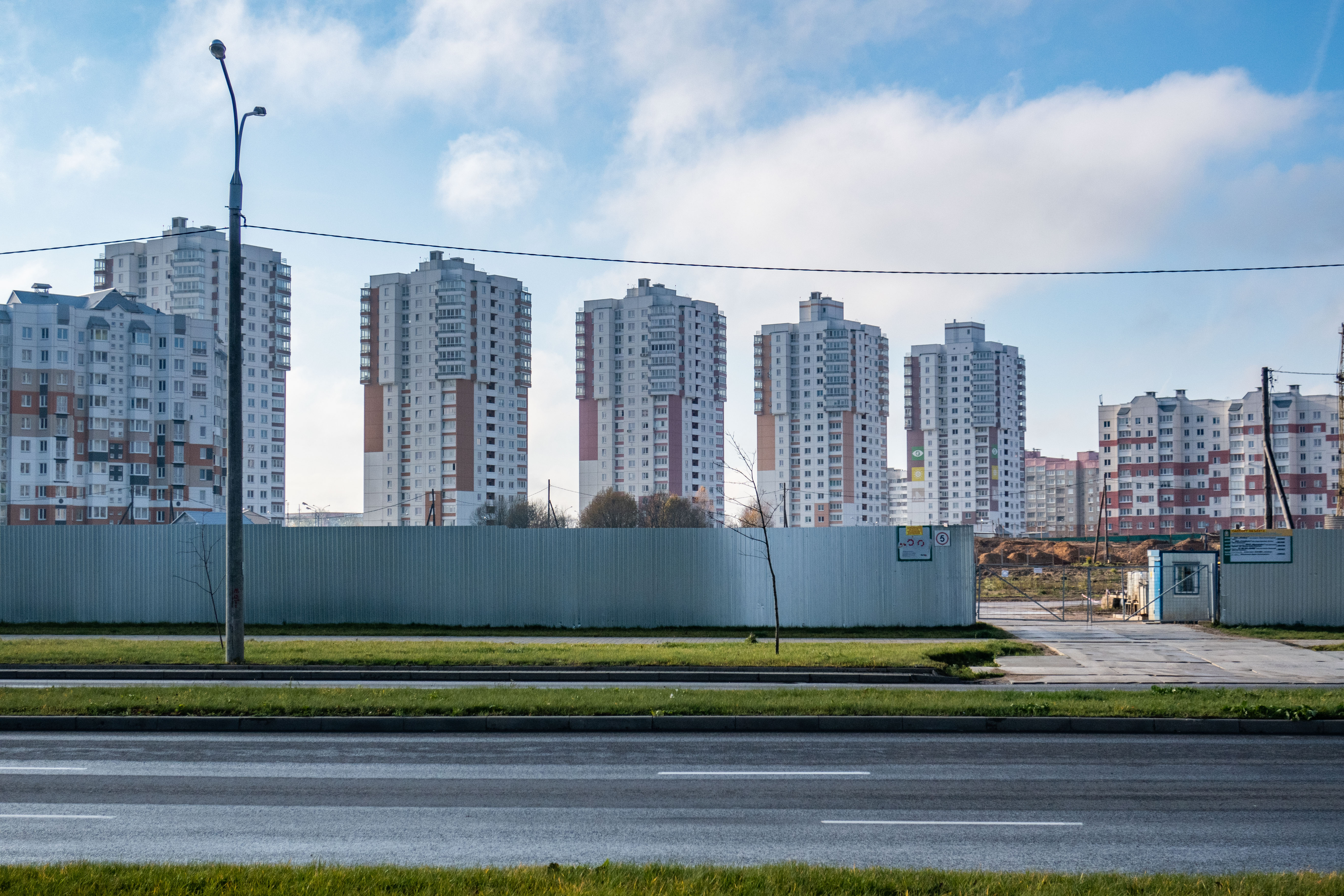 Lošyca microdistrict. Minsk, Belarus